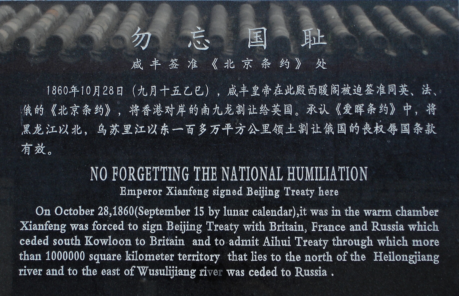 Memorial plaque in the Chengde Mountain Resort commemorating signing of the Beijing Treaty (Hebei, People's Republic of China).